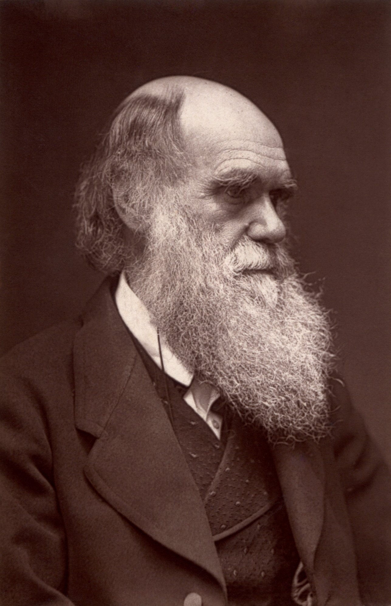 A Woodburytype carte de visite photograph of Charles Darwin, published by John G. Murdoch. Although a slightly different pose, it bears similarity to an 1874 Elliott & Fry portrait, File:Charles Darwin photograph by Elliott and Fry, 1874.jpg. For the back, see File:File-Darwin - John G Murdoch Portrait back.jpg.